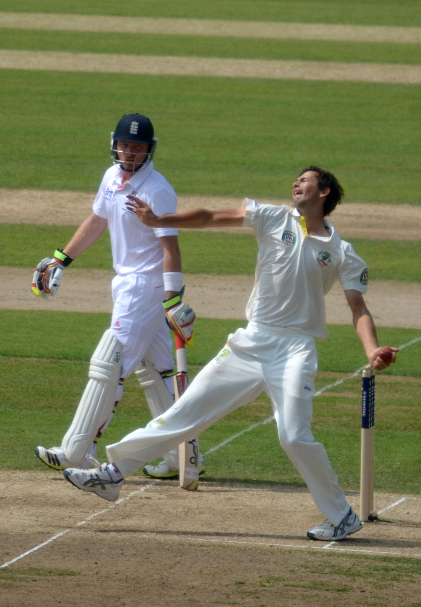 Ashton Agar bowls from the Radcliffe Road end of Trent Bridge on the 3rd day of the 1st Test of the 2013 England v Australia Ashes series. Ian Bell is the batsman.